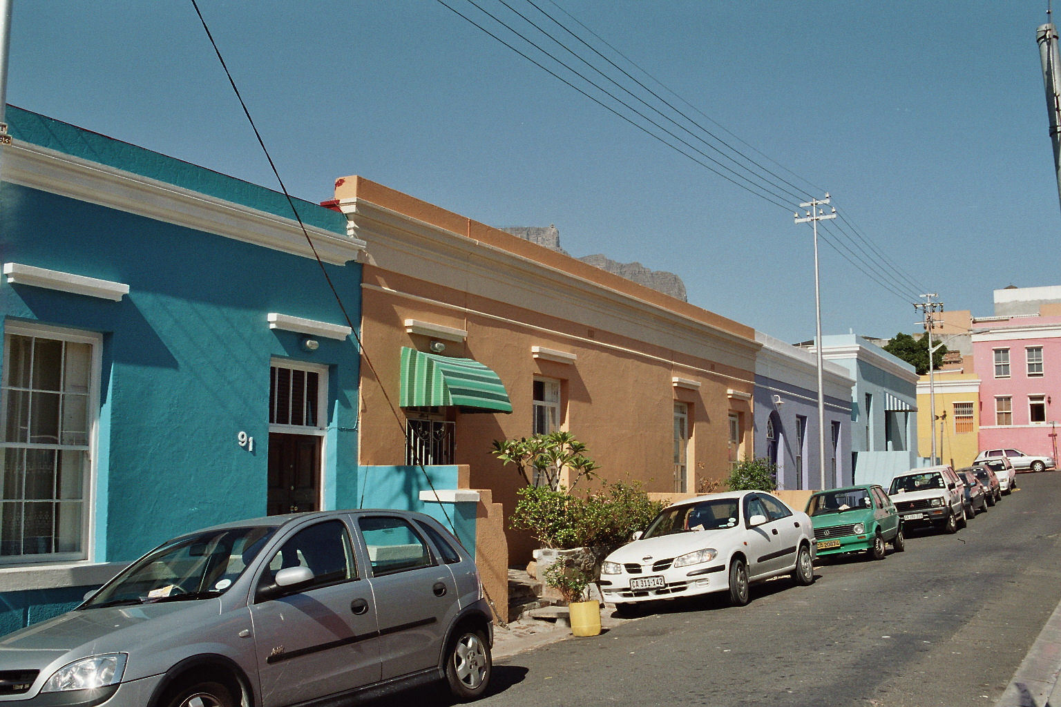 Cape Town